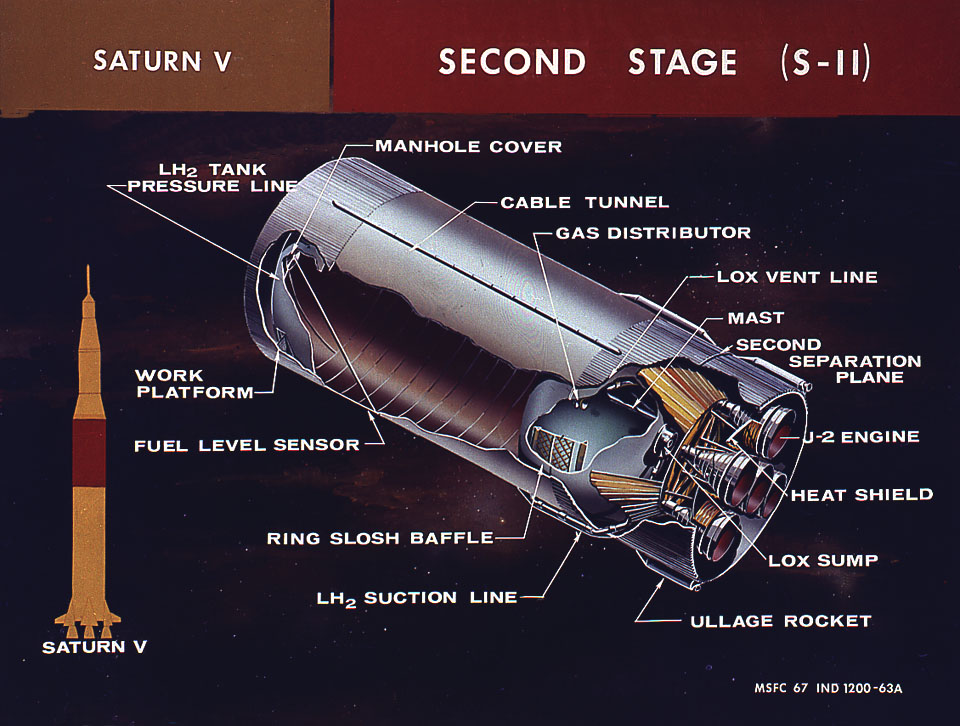 This cutaway illustration shows the Saturn V S-II (second) stage with callouts of major components. When the Saturn V first stage burns out and drops away, power for the Saturn was provided by the S-II (second) stage with five J-2 engines which produced a total of 1,150,000 pounds of thrust. Four outer engines are placed in a square pattern with gimbaling capability for control and guidance, with the fifth engine fixed rigidly in the center.